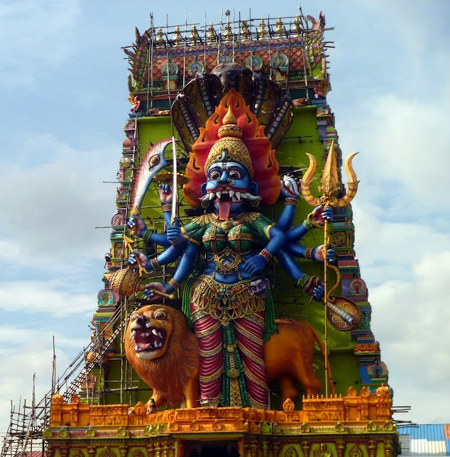 rajagopuram